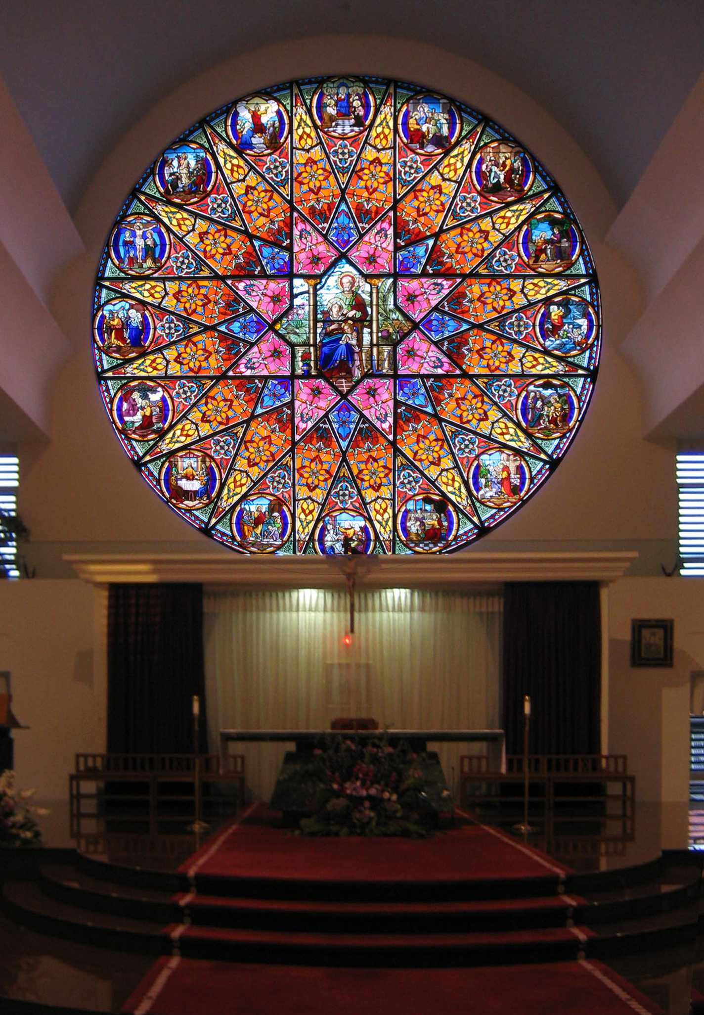 A rose window depicting the Holy Family in the Church of the Holy Family, Singapore, created by Joël Mône and produced by Vitrail Saint-Georges in 1998.